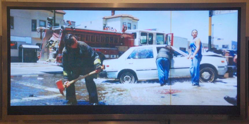 Shows how content with an aspect ratio of 21:9 is displayed on the screen of a 21:9 TV